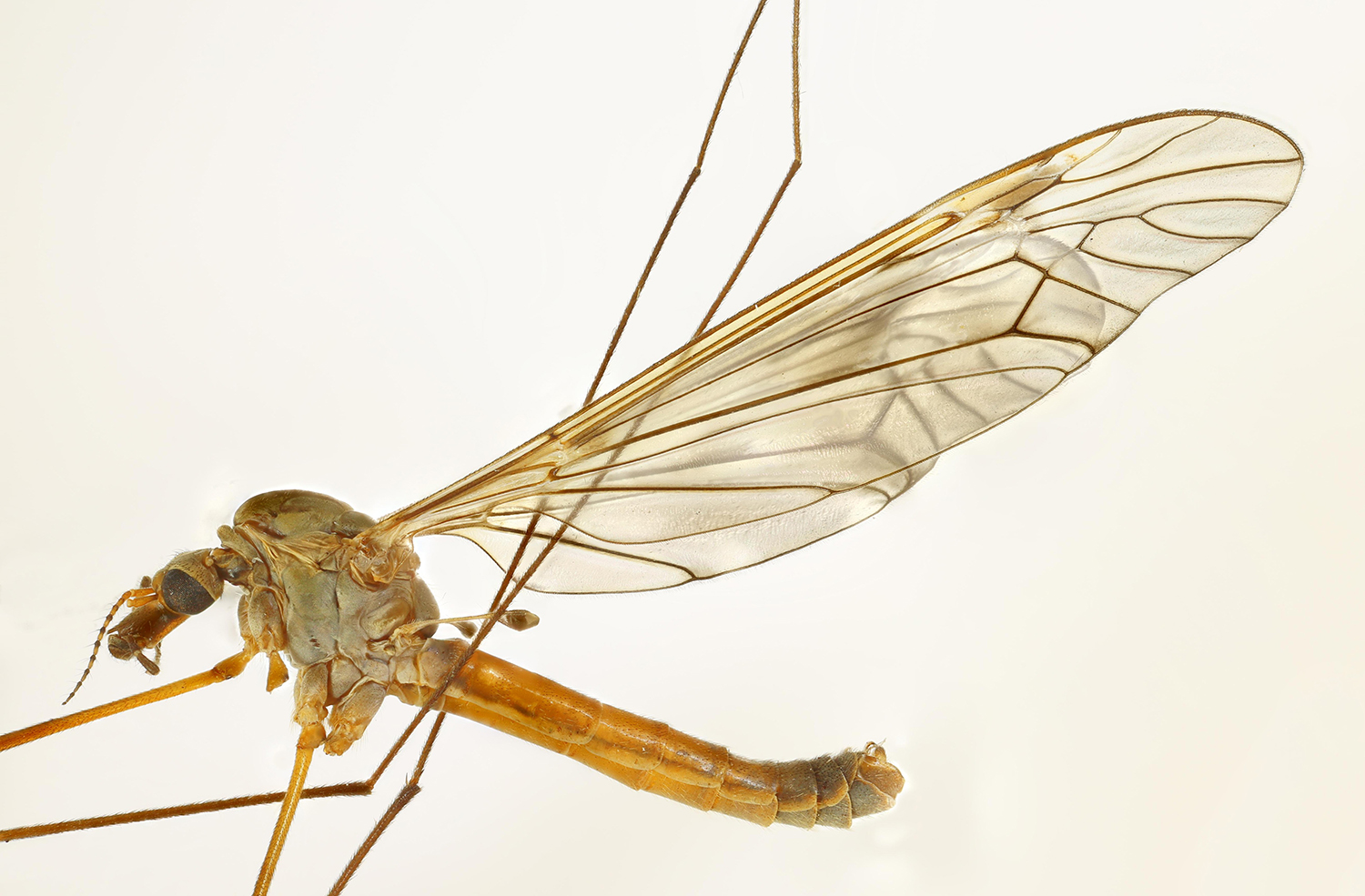 Tipula scripta, Trawscoed, North Wales, Aug 2015